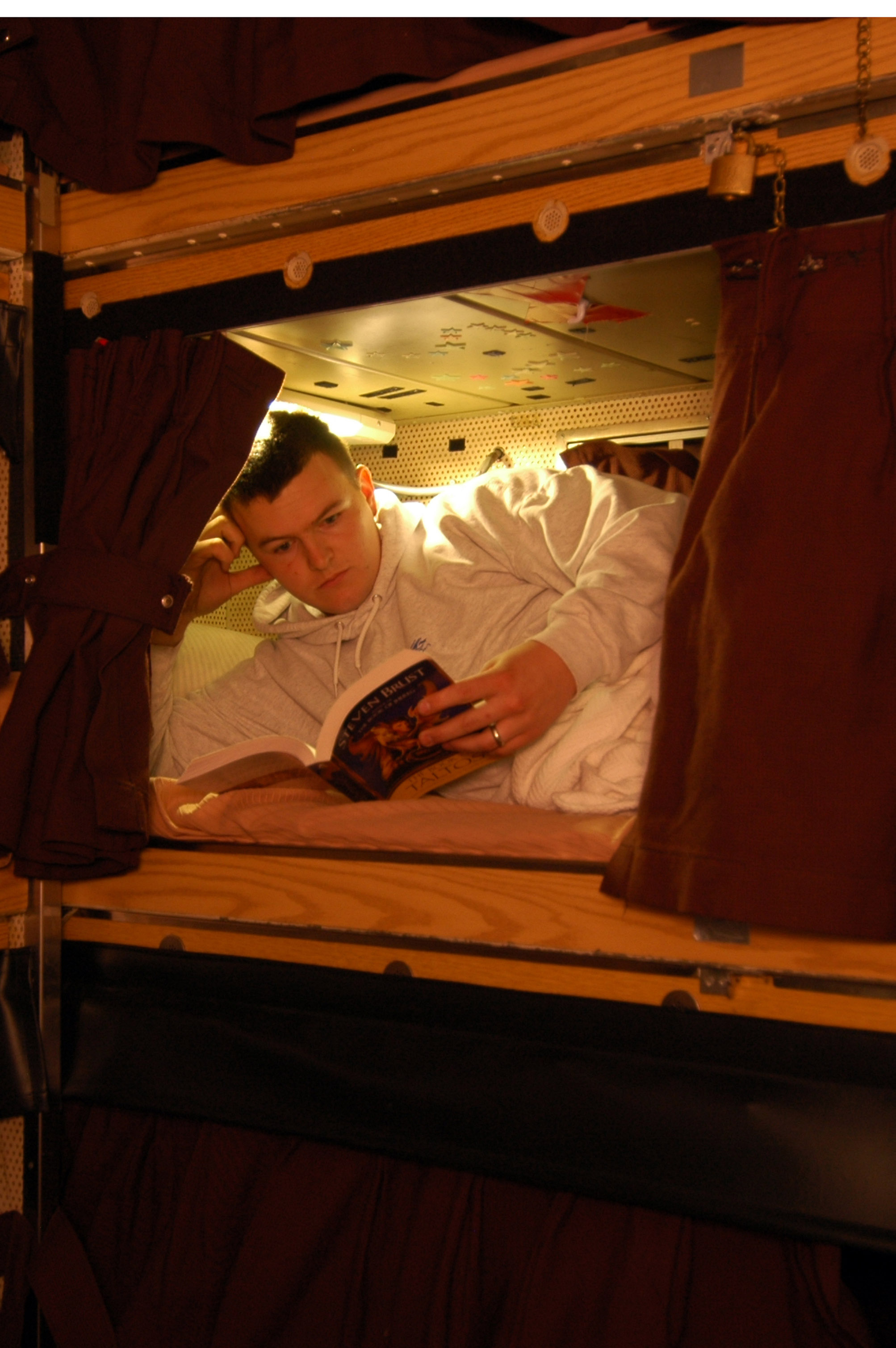 BREMERTON, Wash. (Sept. 4, 2009) Electrician's Mate 2nd Class Christopher Curtis relaxes in his rack during his off hours aboard the ballistic-missile submarine USS Henry M. Jackson (SSBN 730). (U.S. Navy photo by Mass Communication Specialist 2nd Class Gretchen M. Albrecht/Released)